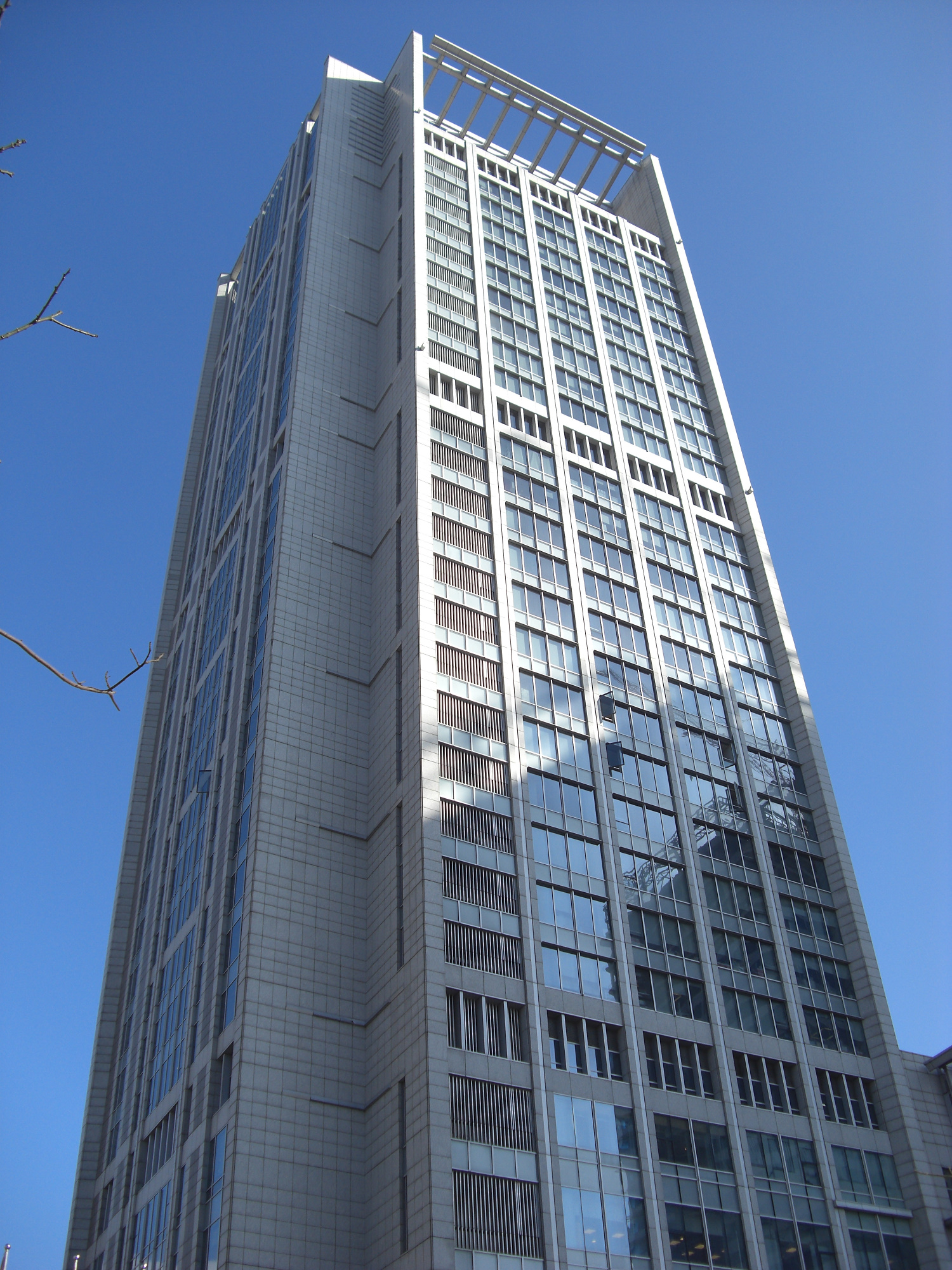 President International Tower seen in the morning.